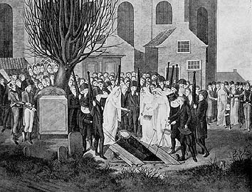 Contemporary depiction by an unknown author of Klopstock's funeral on 22 March 1803 in the churchyard of Christianskirche Ottensen.